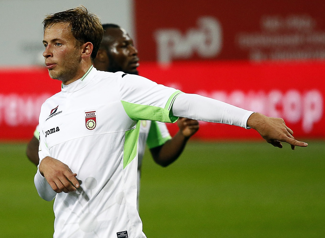 Igor Bezdenezhnykh with FC Ufa in a game against FC Lokomotiv Moscow.